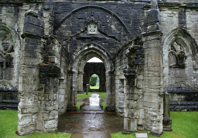 Dunkeld Cathedral, Dunkeld, Perth and Kinross, Scotland - south porch